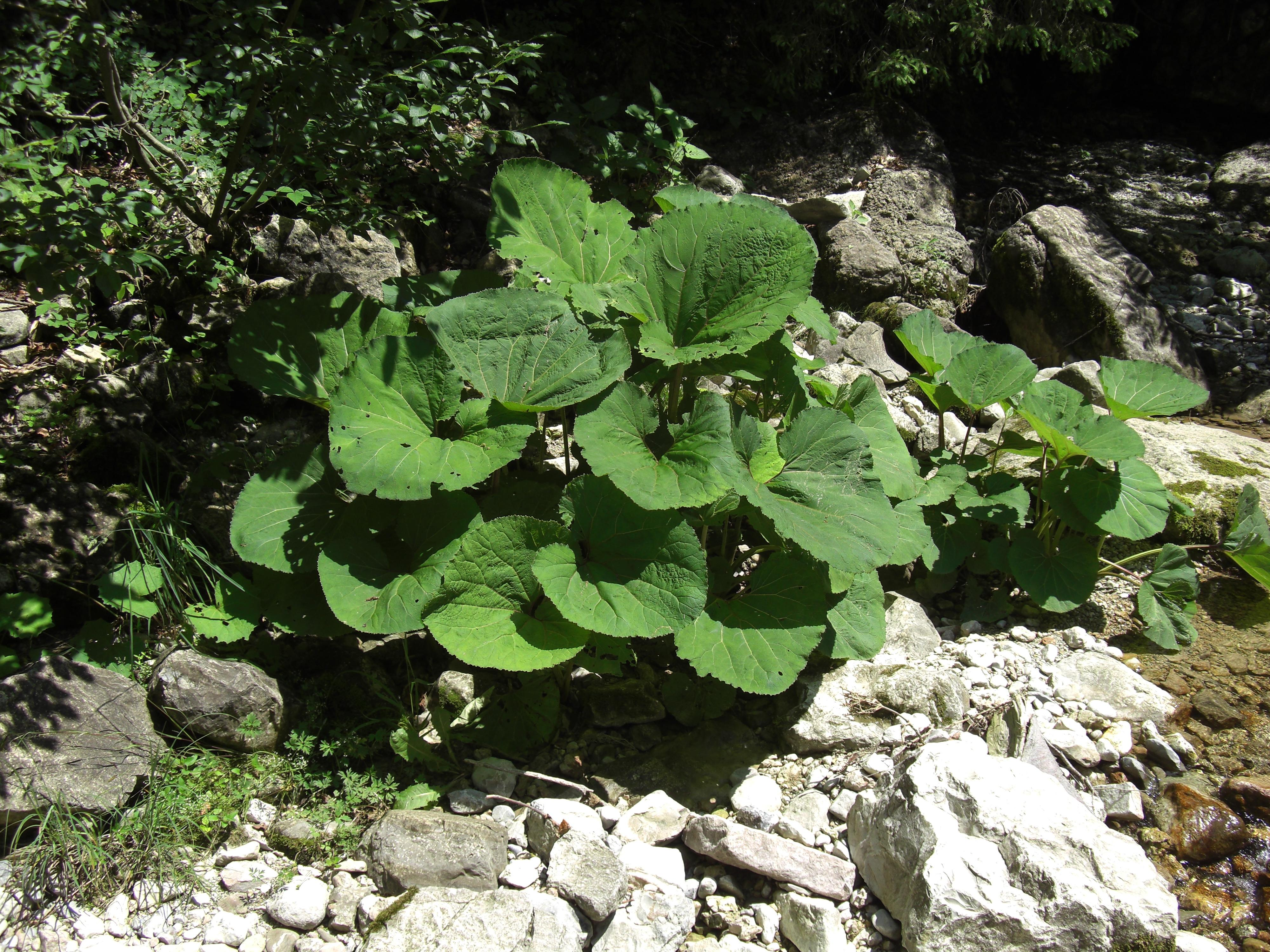 Plants in the Glasenbachklamm (Petasites hybridus)